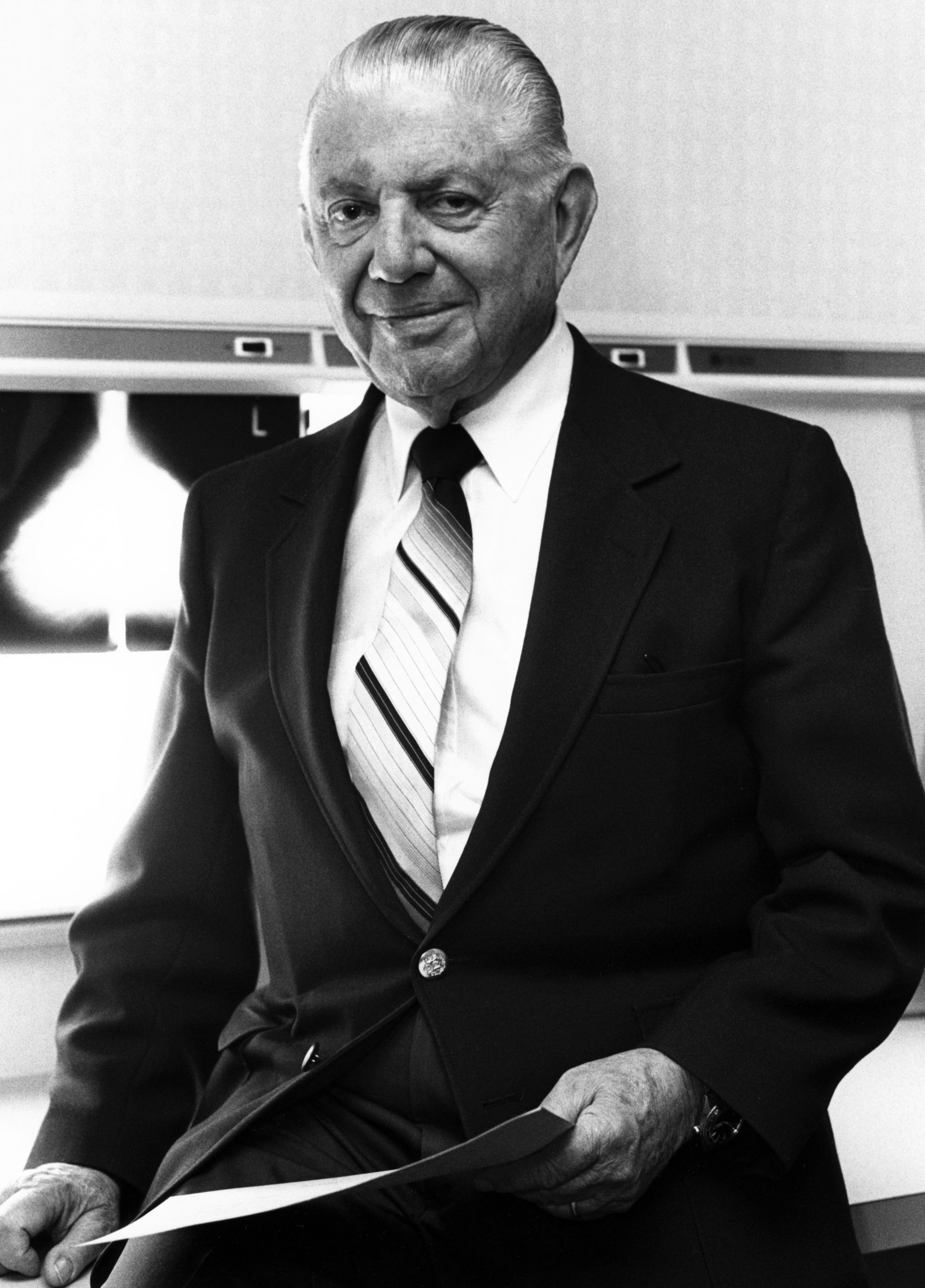 Title: Historical Portrait: Philip Strax Description: Portrait of Philip Strax Subjects (names): Strax, Phillip Topics/Categories: Historical -- People People -- Adult Type: B&W Source: General Motors Cancer Research Foundation Author: Unknown Date Created: Unknown Date Added: 1/11/2010 Reuse Restrictions: None - This image is in the public domain and can be freely reused. Please credit the source and/or author listed above.